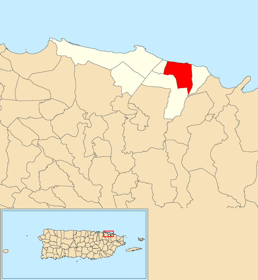 Medianía Baja, Loíza, Puerto Rico locator map